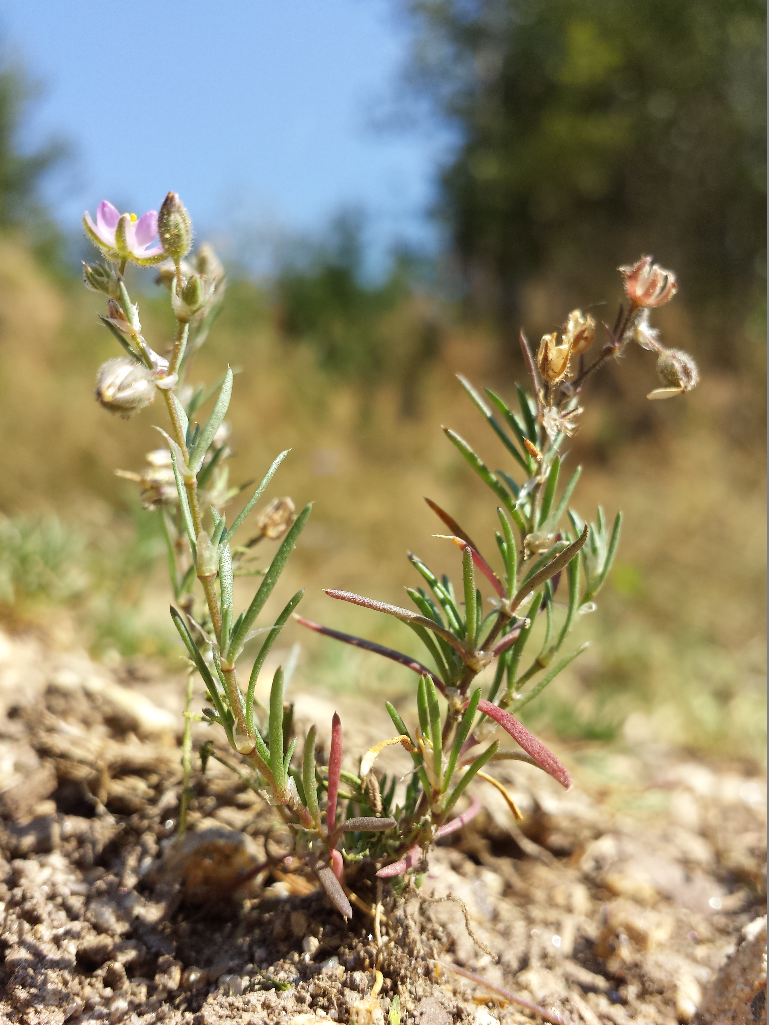 Habitus Taxonym: Spergularia rubra ss Fischer et al. EfÖLS 2008 ISBN 978-3-85474-187-9 Location: near Heumühle next to Rappottenstein, district Zwettl, Lower Austria - ca. 700 m a.s.l. Habitat: gritty place (crystalline rock)